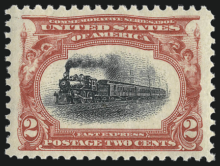 Scan of Pan-American Exposition two cent stamp